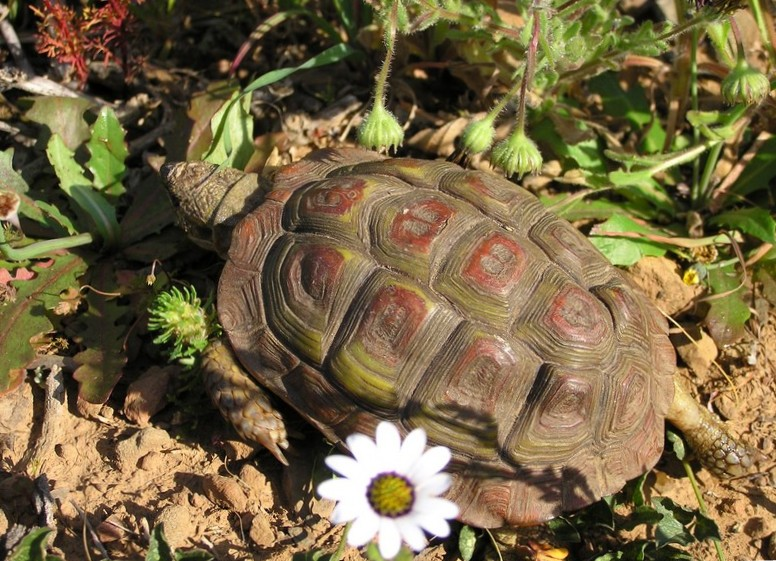 Homopus areolatus. The tiny Beaked Cape Tortoise. Photo taken in the city of Cape Town.